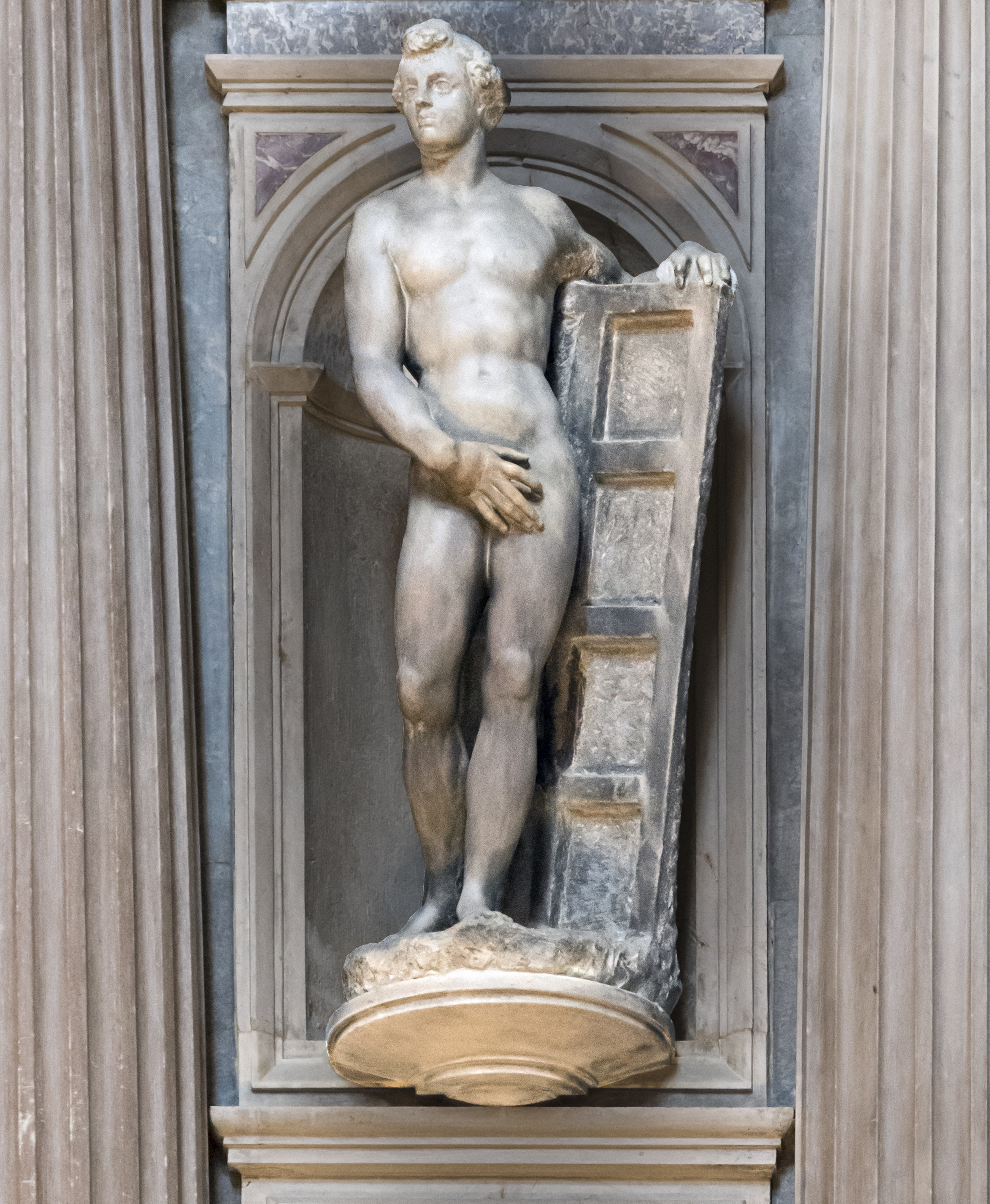 Church of San Salvador, in Venice. Statue of Saint Lawrence (1530) by Giacomo Fantoni.